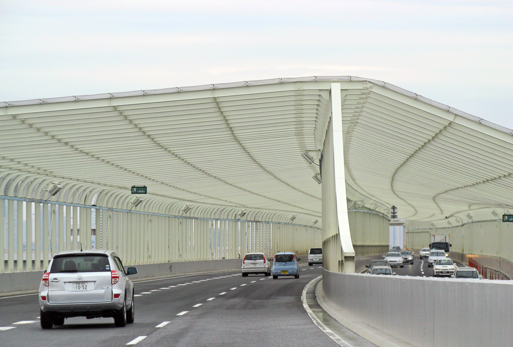 I took this photo.